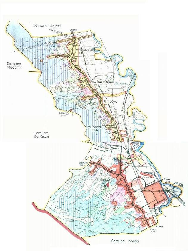 It's mine.